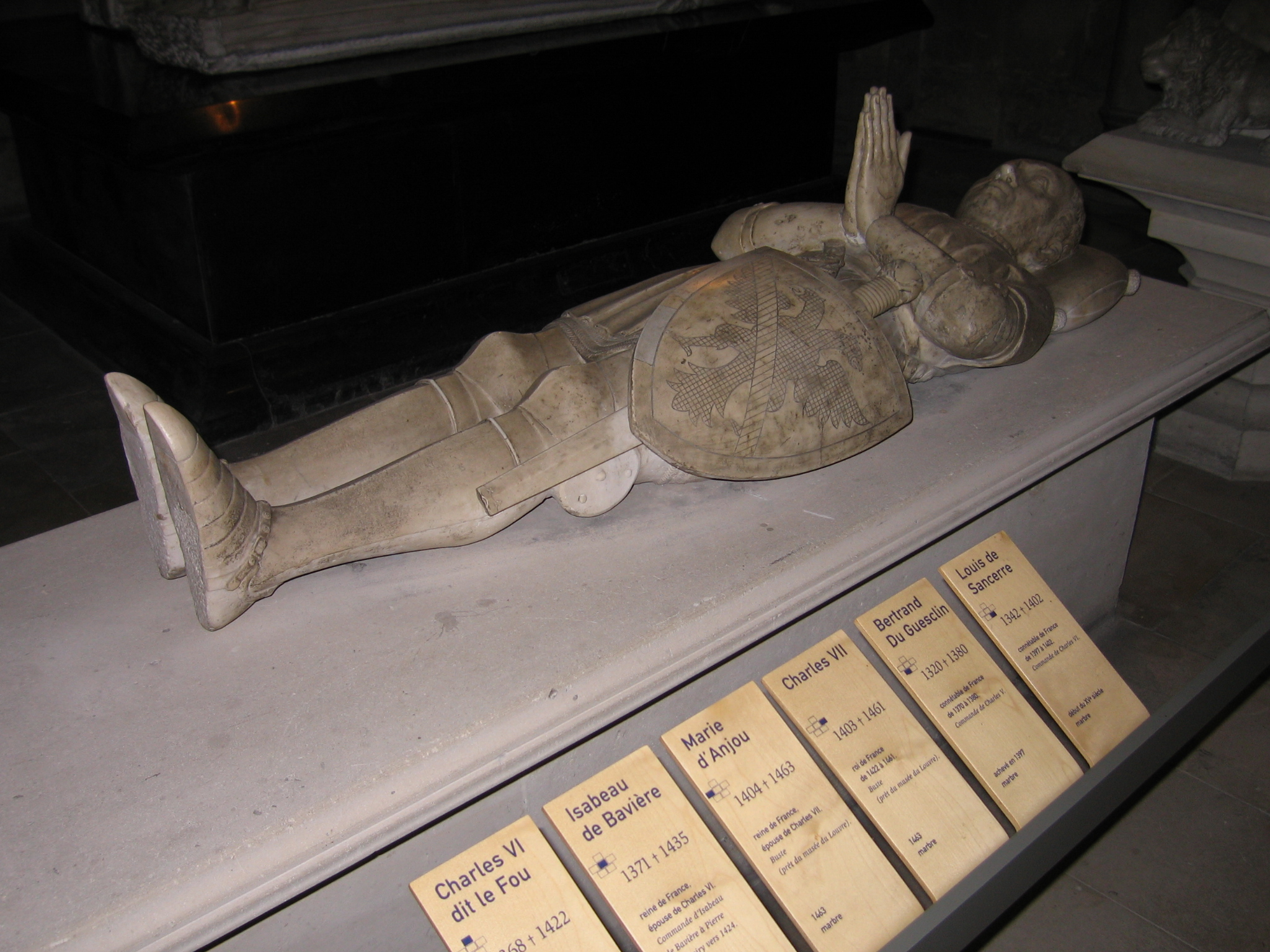 Tomb of Bertrand du Guesclin in the Cathedral of Saint-Denis